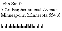 Example of the 5-digit Zip Code with a Postnet bar code.